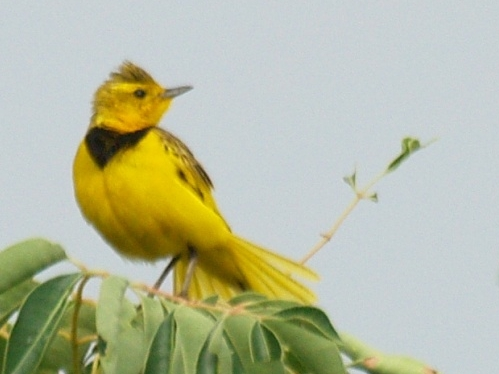 This photo of a rare sighting of a Golden Pipit was taken at Pongolo Nature Reserve in December 2010.